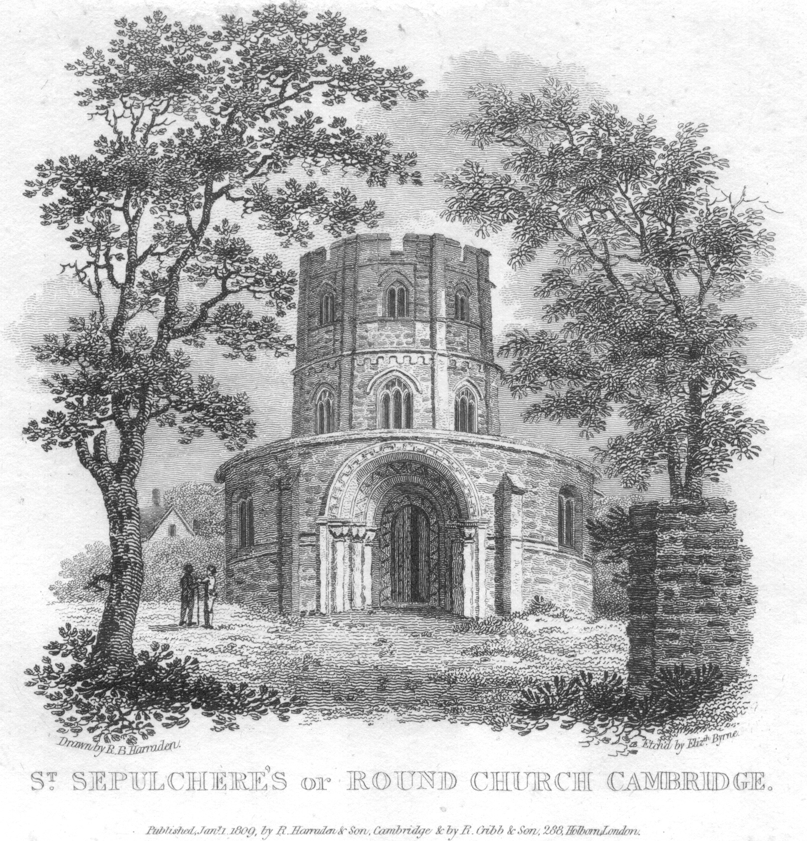 The Holy Sepulchre, Cambridge